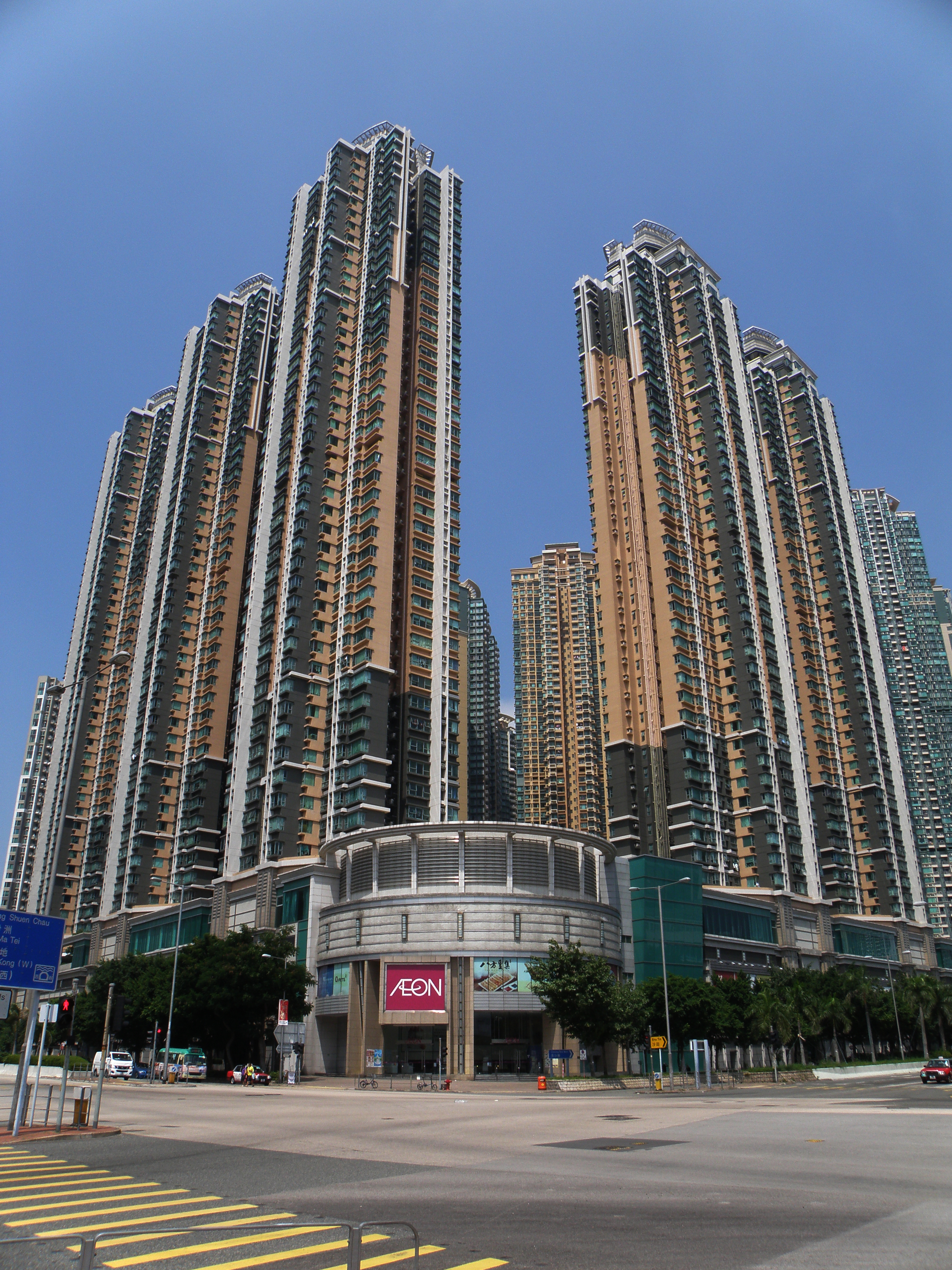 Aqua Marine in Lai Chi Kok, Hong Kong.